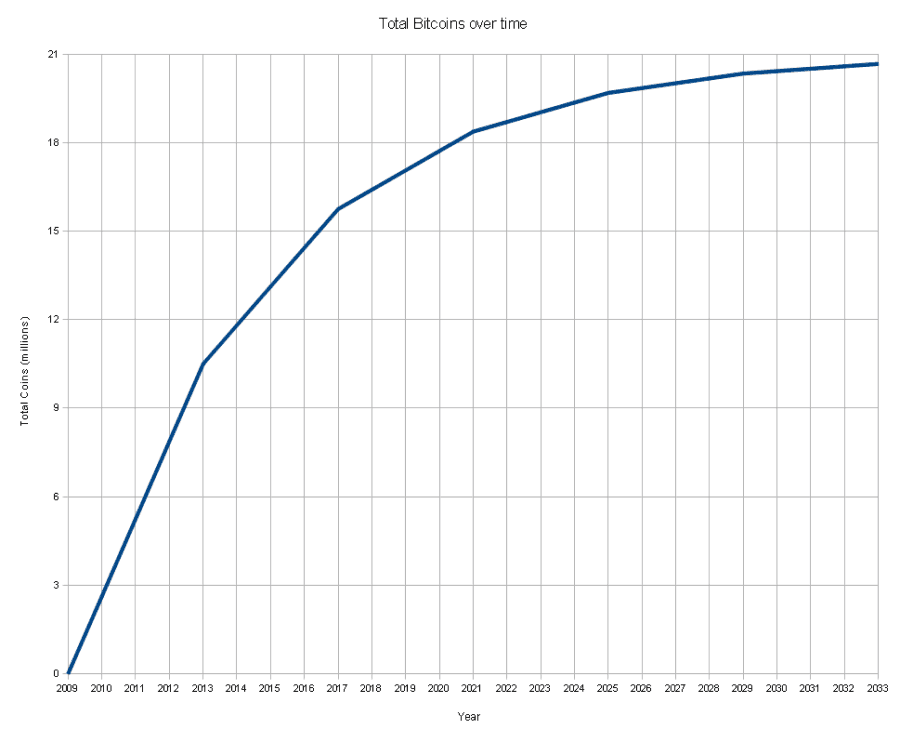 Total Bitcoin supply over time. Starting in 2009, the Bitcoin supply is created at a rate of approximately 50 bitcoins every 10 minutes. Every 210,000 generations (about every four years), the creation rate is cut in half (i.e. 50, 25, 12.5, 6.25, etc.) and tends to zero, such that there will never be more than 21 million total coins created.